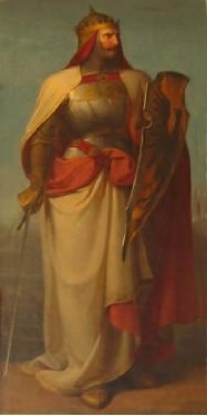 Adolf of Nassau (ca. 1255 - July 2, 1298) was King of the Romans from 1292 until 1298. Painting by Heinrich Mücke (1806-1891).